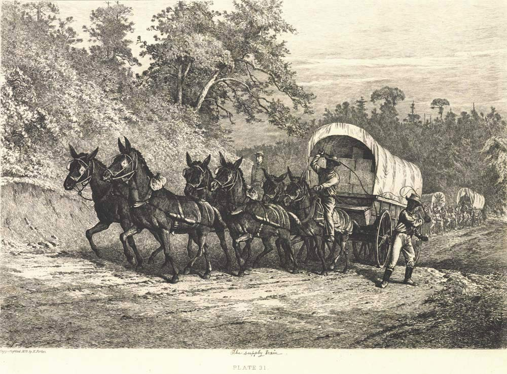 "The Supply Train", 1876, copperplate etching by Edwin Forbes (1839 – 1895).